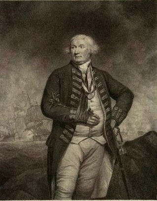 Portrait of Thomas Graves, 1st Baron Graves (1725-1802)